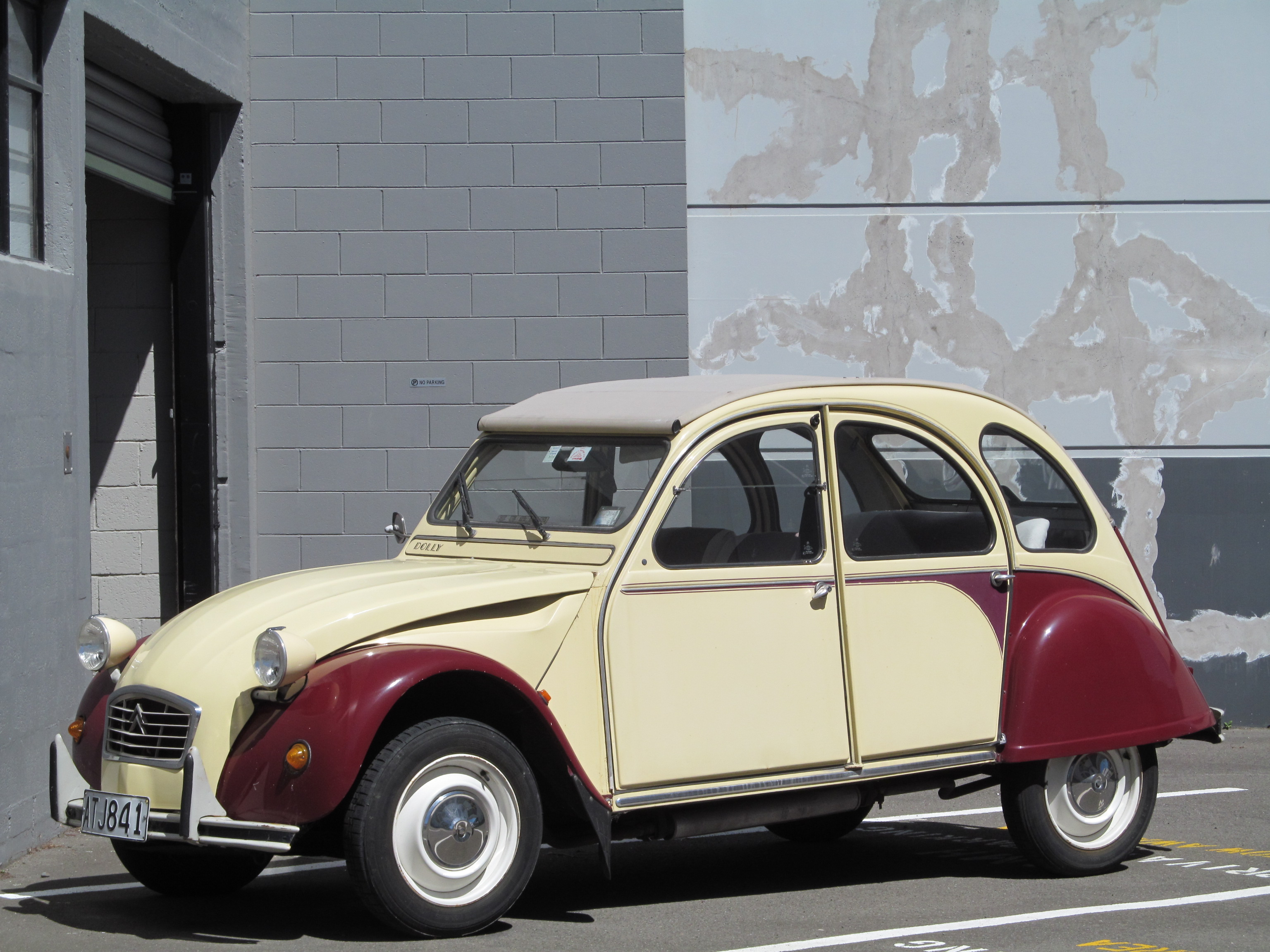 A pleasing sight in central Christchurch last month. This particular car has been in NZ since 1990, which would suggest it may have sat at a Citroen dealer for several months. These are sadly very rare cars in New Zealand, which is a shame as they are very cool!